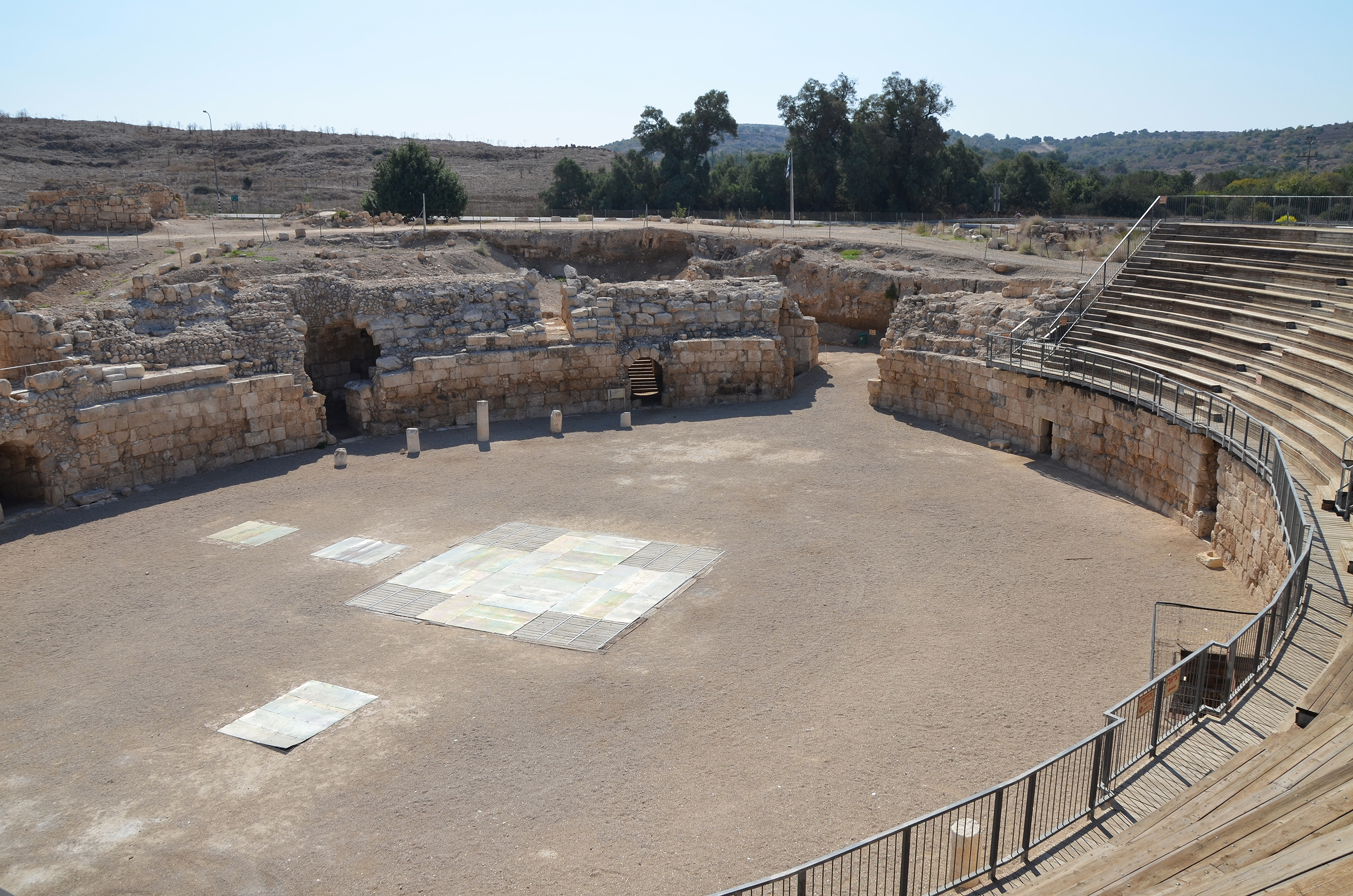 Roman Amphitheatre, built during the reign of Septimius Severus by the Roman army units stationed there, Eleutheropolis (Beit Guvrin), Israel